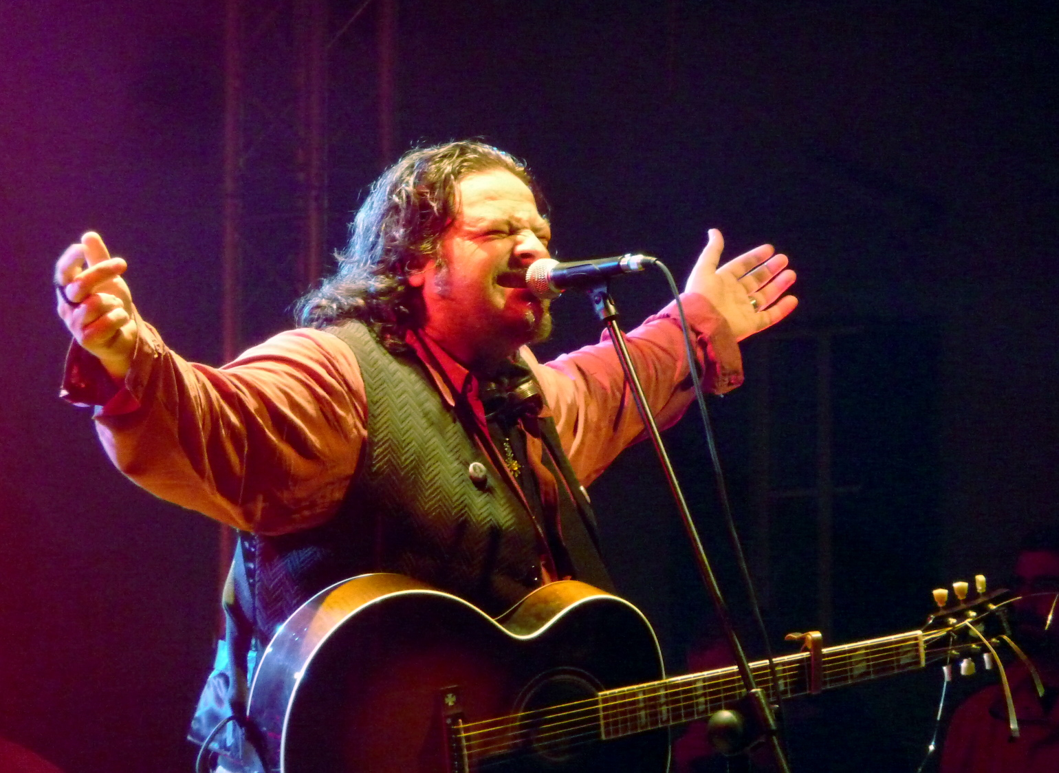 Stefano Bellotti, Italian singer